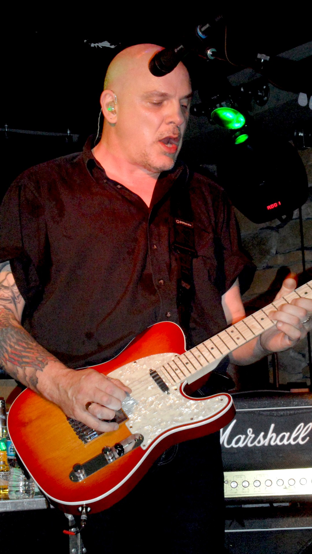 Performing with the Stranglers at the Cobra Lounge in Chicago on June 7th, 2013